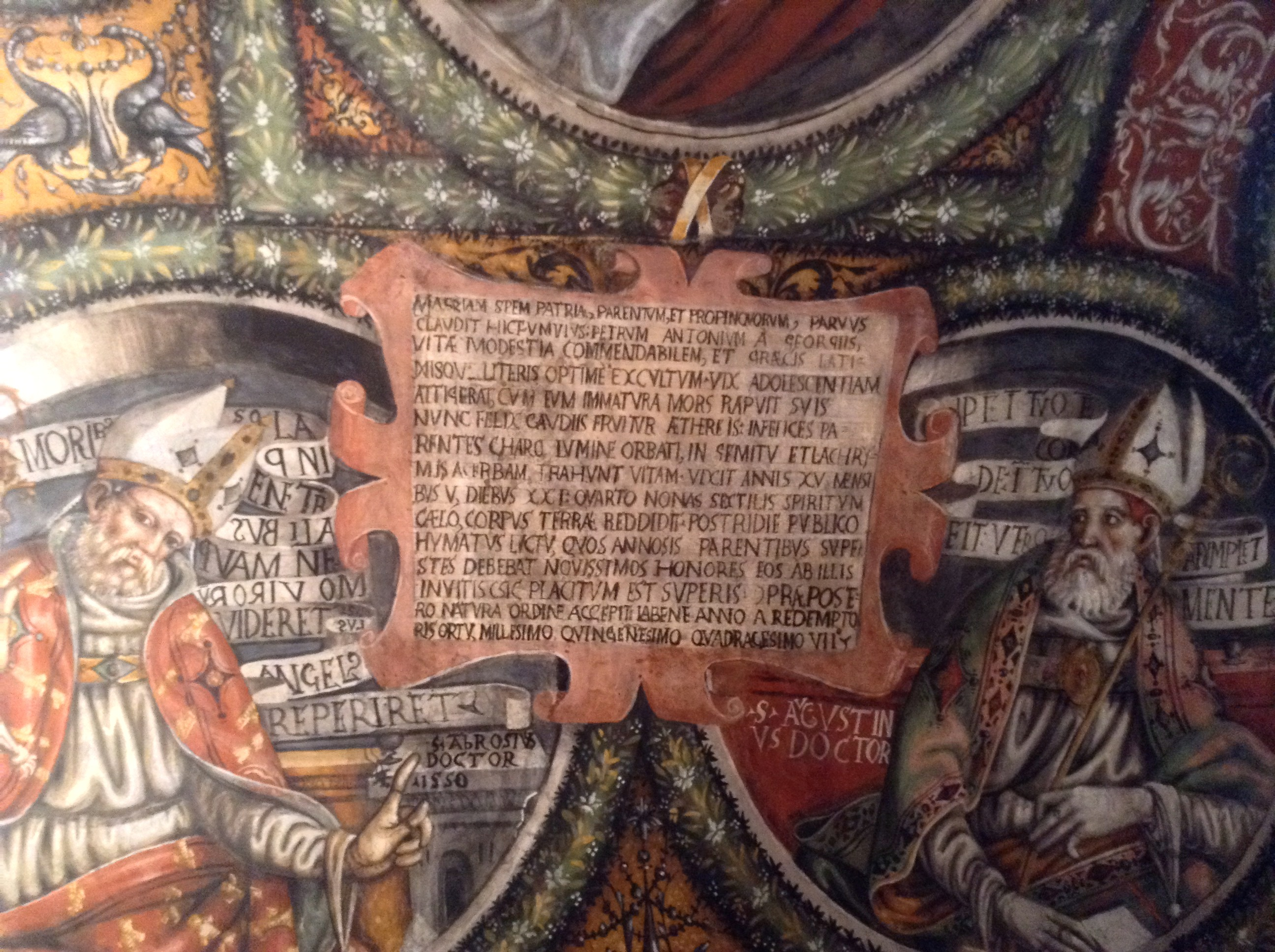 St. Ambrose and St. Augustine. Epitaph refers to Pietro Antonio De Georgiis; Fresco from 1550